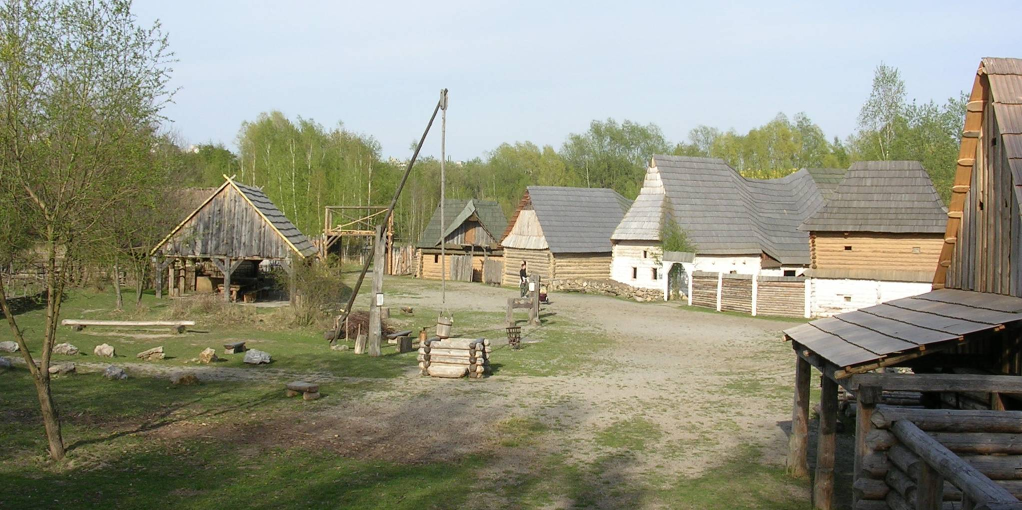 Open air museum Řepora, Prague, the Czech Republic